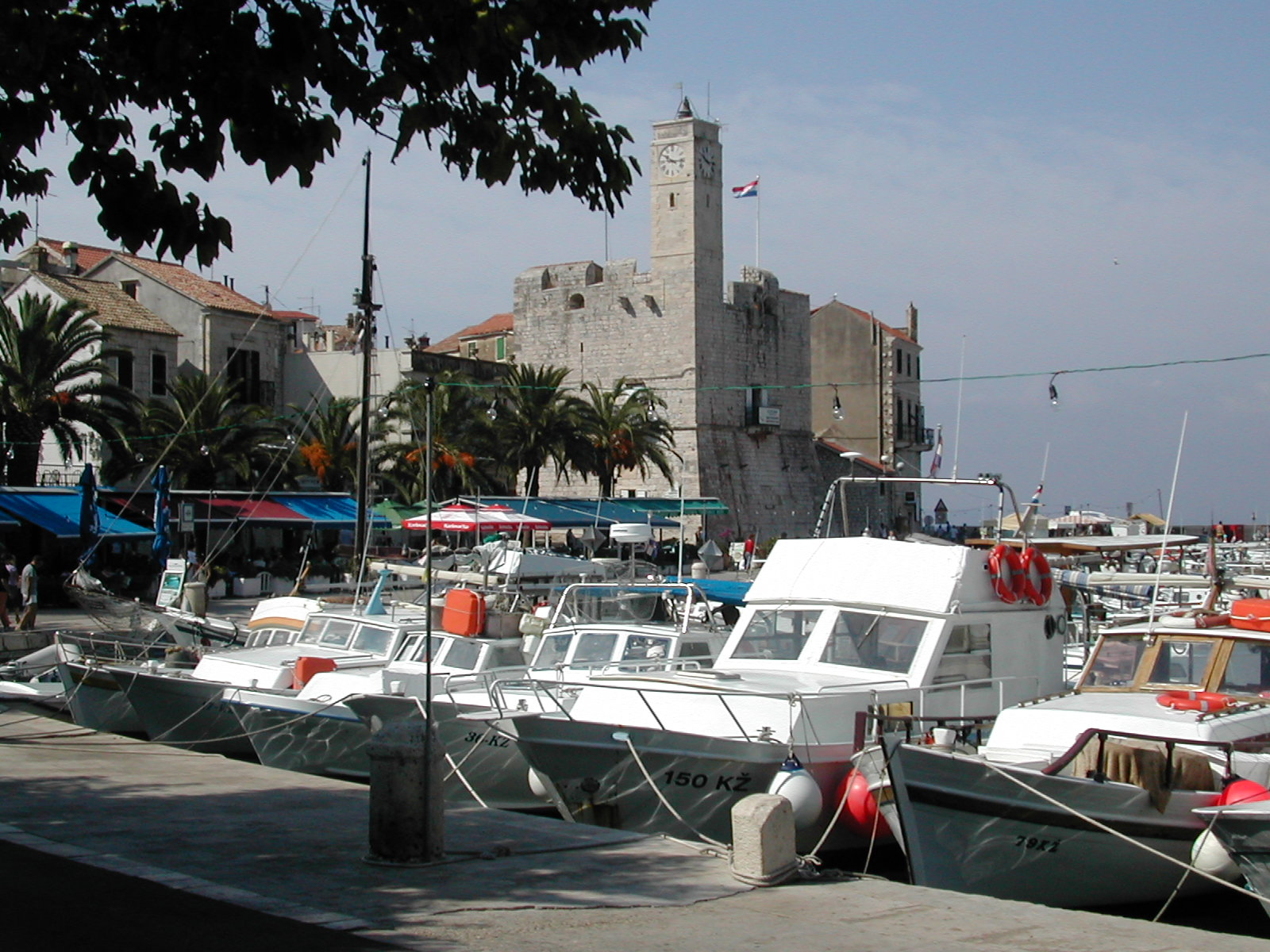 Venetian Castle of Komiza on Vis Island